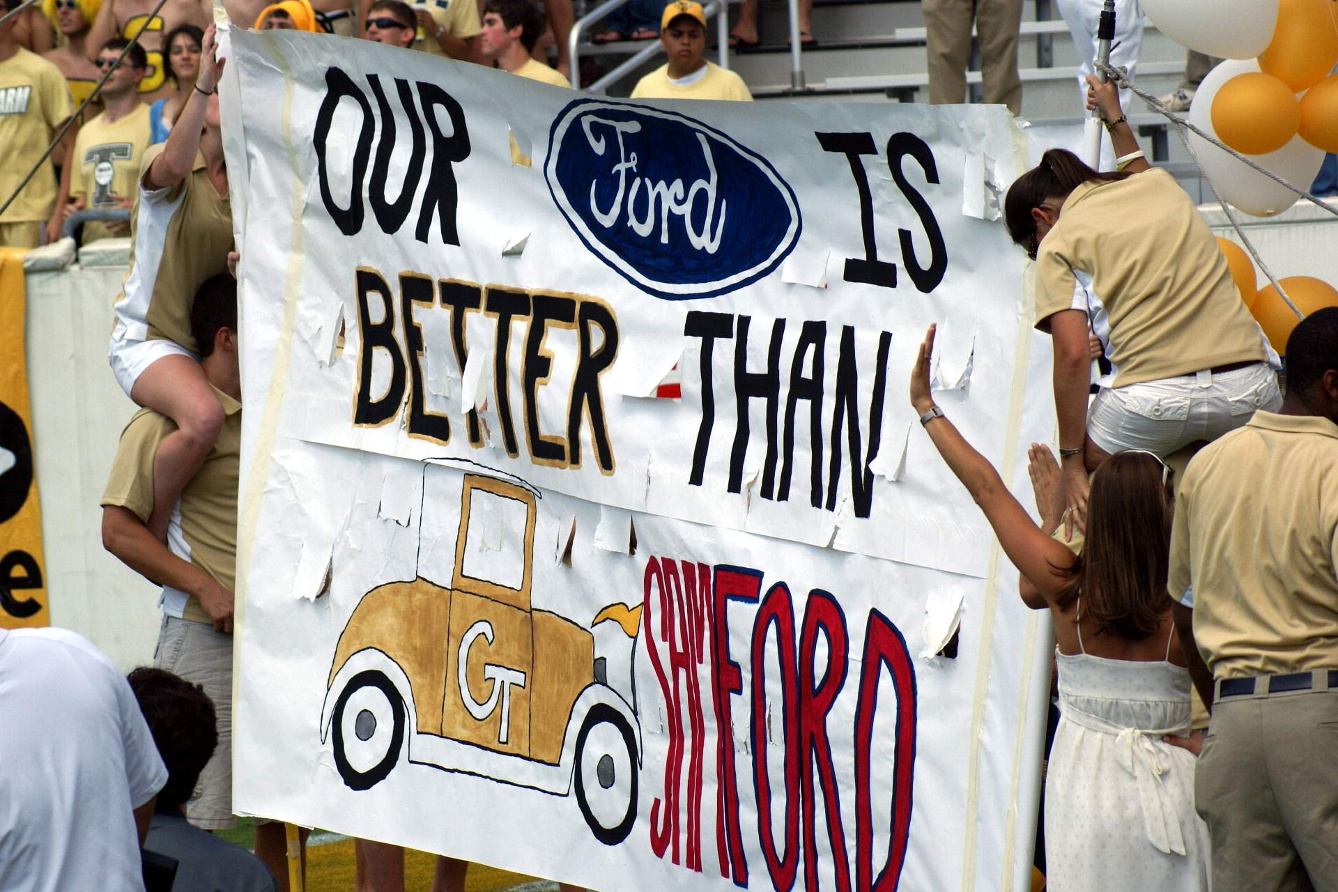 (Excaliburhorn,self-taken,2007)